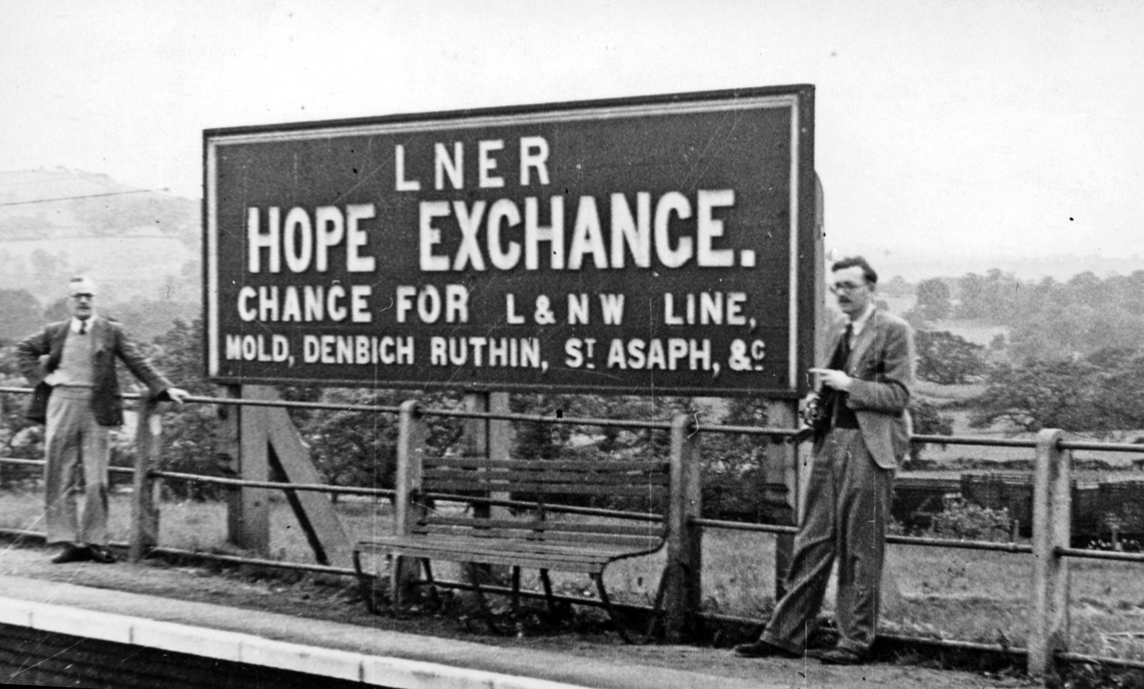 Name-board at Hope Exchange High Level, 1948This is on the ex-GCR, former Wrexham, Mold & Connah's Quay Railway, Wrexham - Bidston, Seacombe line, a purely interchange station with no proper external access (or tickets), with the ex-LNWR Chester - Mold - Denbigh line - on the lower level. Both the High and the Low Level platforms were closed 1/9/58 and the Chester (Mold Junction)- Denbigh - Ruthin passenger services from 30/4/62, freight lingering on until 1/3/65. (The two gentlemen are the railway authors W.A. Camwell and E.C. Russell - although which is which I am not sure).